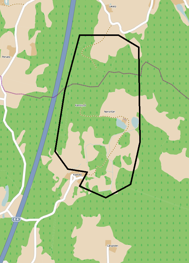 OpenStreetMap screenshot of the area Norra Kärr north of Gränna, in the county of Jönköping in Sweden. The area within the black polygon indicates where rare earth elements might be found.